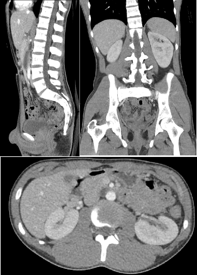 Computed tomography of the abdomen and pelvis, performed as a contrast CT, here presented in the sagittal, Coronal planecoronal and axial plane, with 3 mm slice thickness. It shows normal anatomy, with no injuries. The subject is a 21 year old male who had blunt trauma to the upper abdomen during motocross.